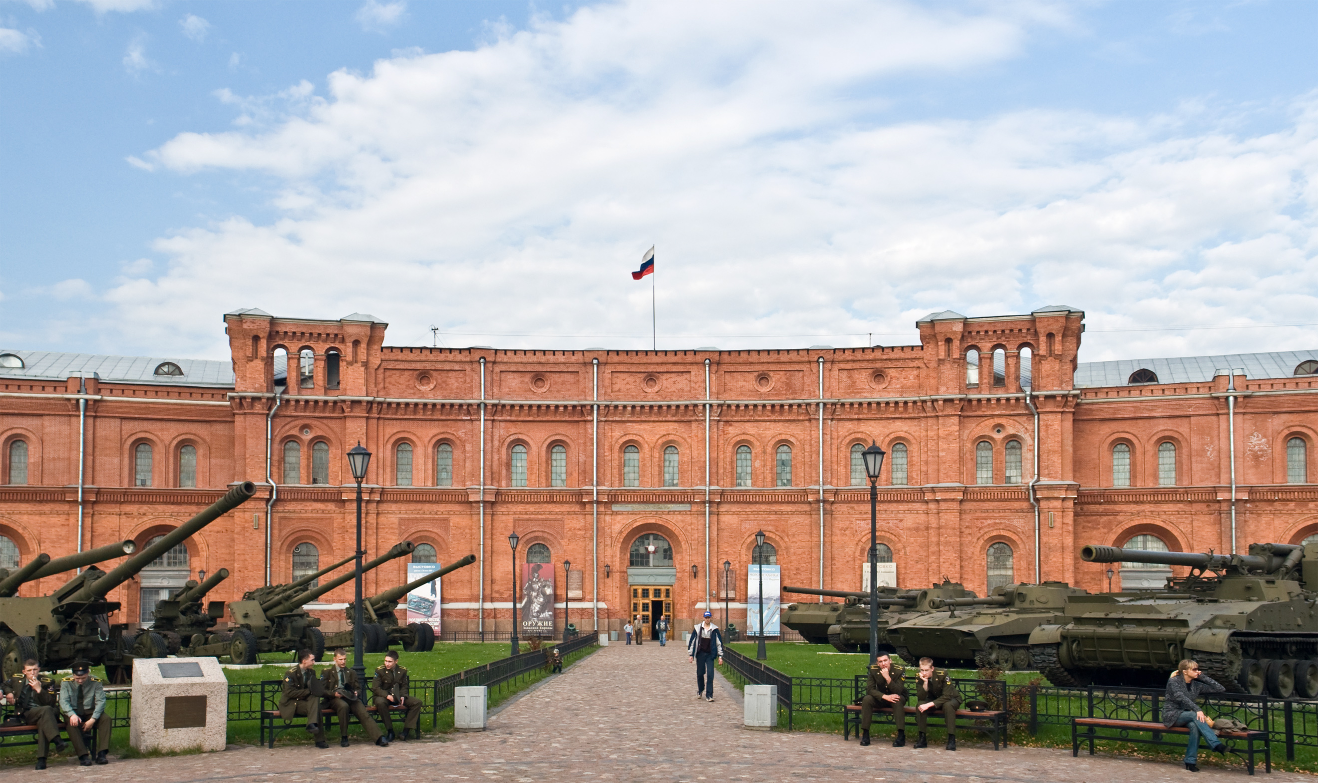 Entrance to the Military-Historical Museum of Artillery, Engineering and Communications Forces in Saint Petersburg, Russia